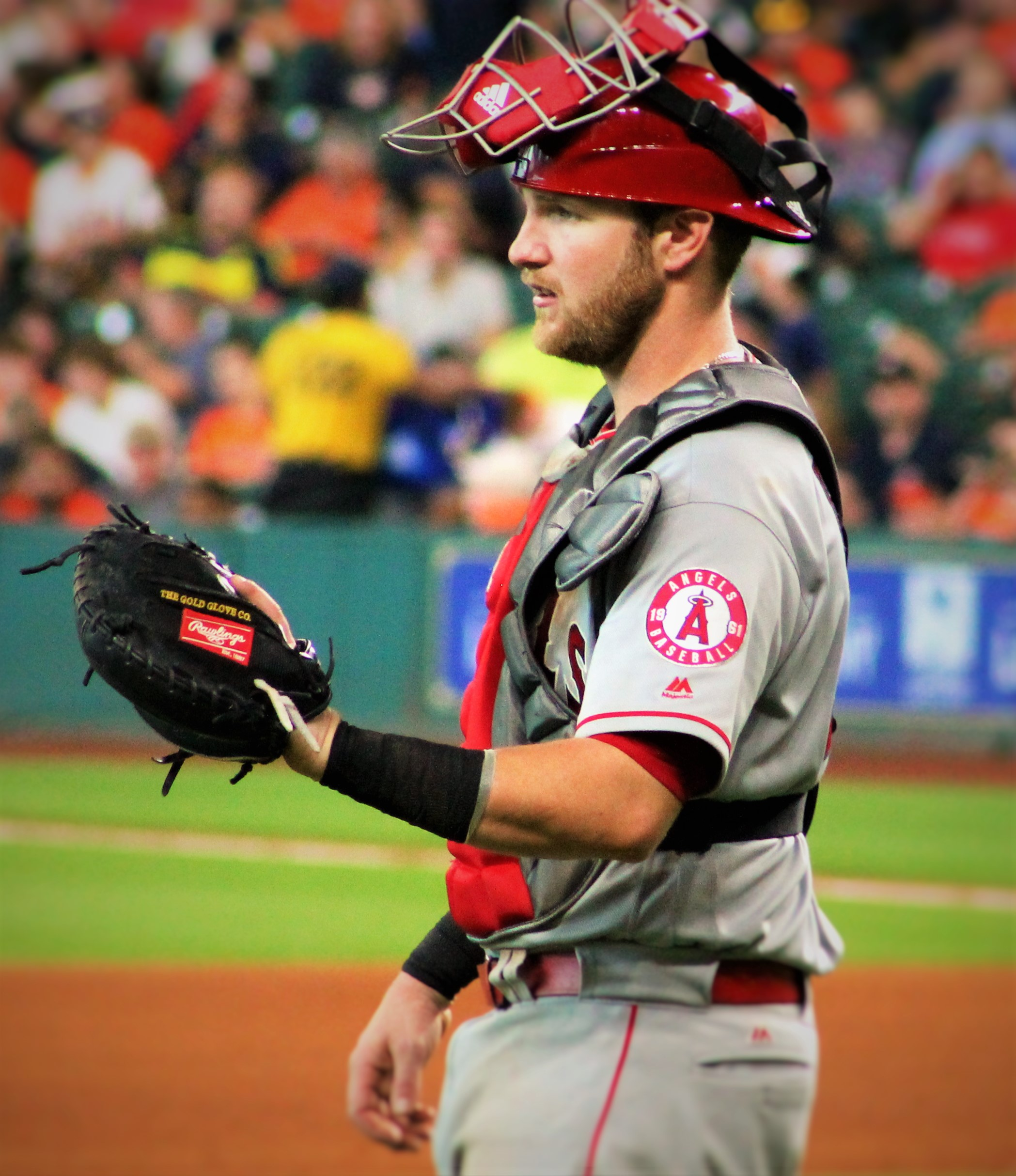 Professional baseball player Jett Bandy during a game in Houston in 2016.